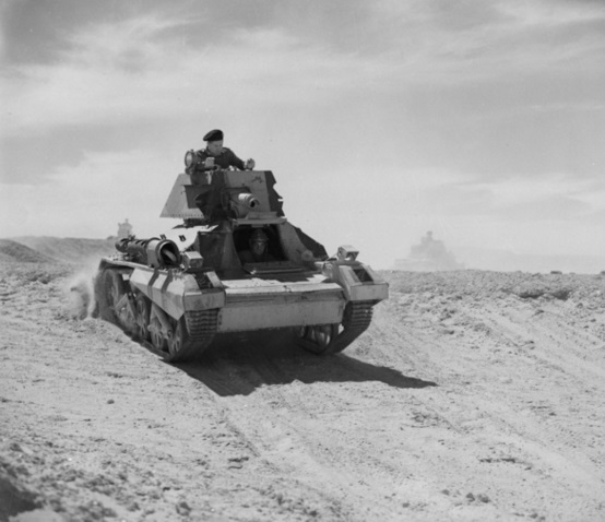 NZ Divisional Cavalry training with Mk II Light tanks at Wadi Digla